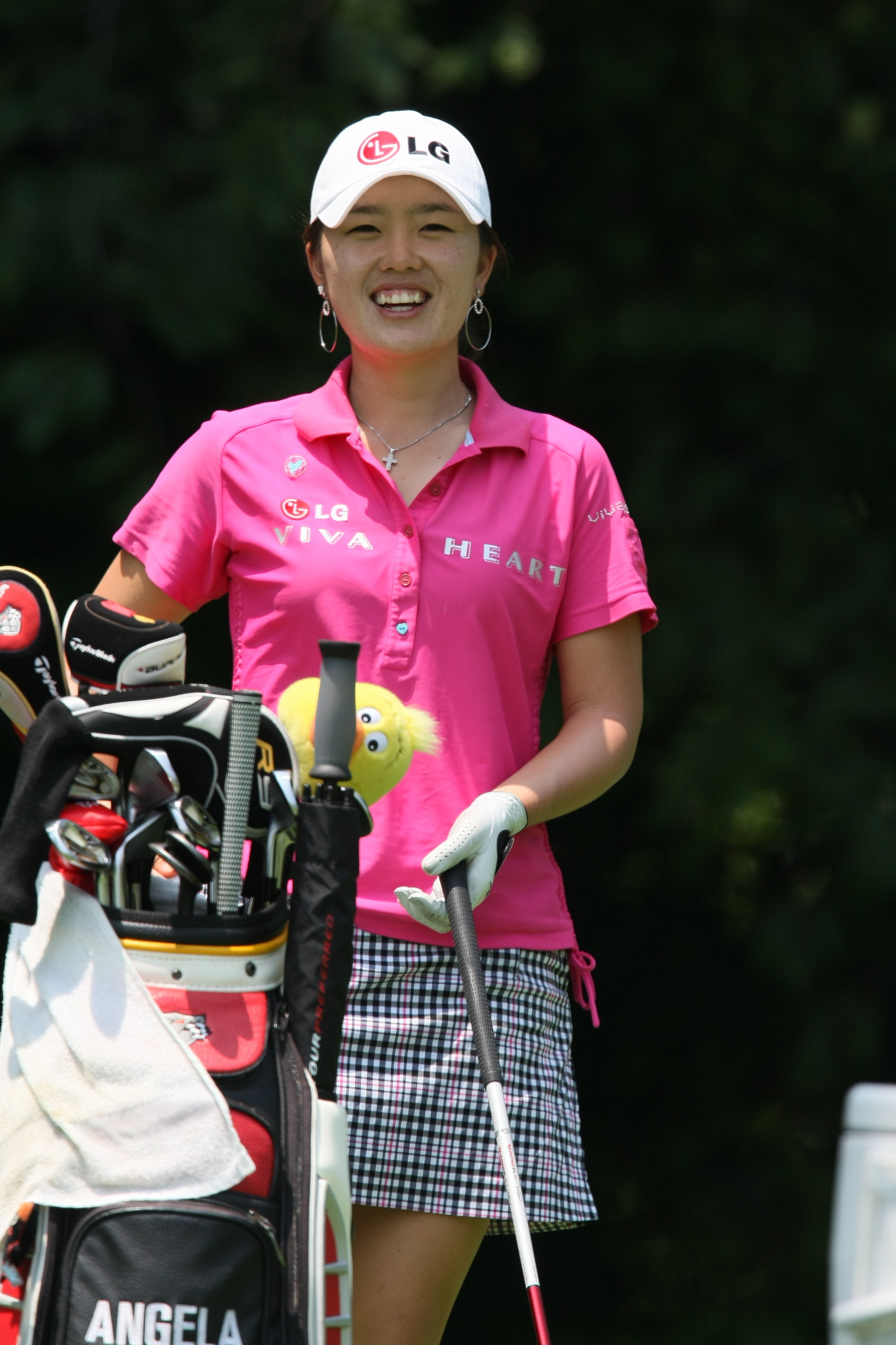 Angela Park, Korean-American golfer, in 2009.